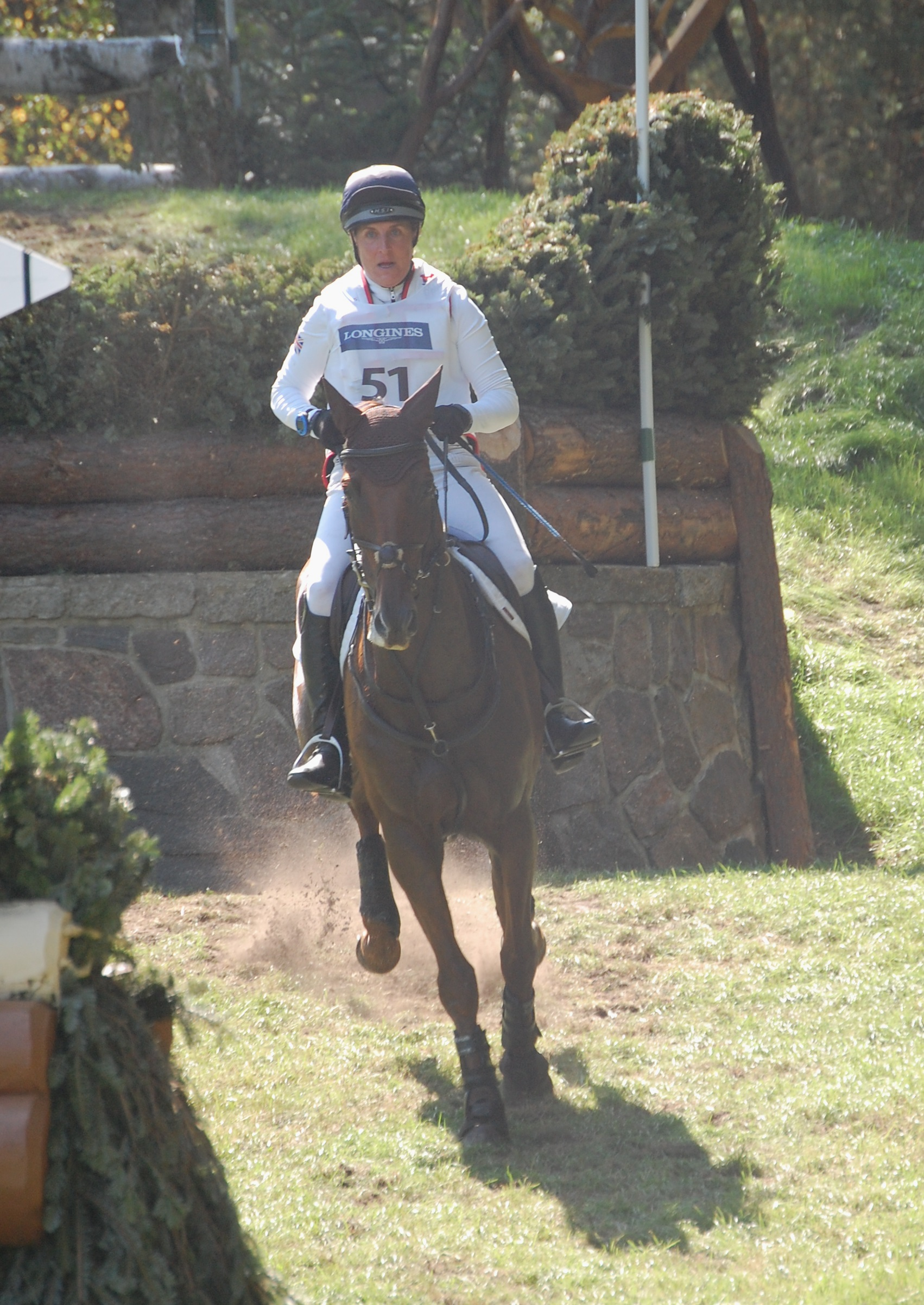 British rider Kristina Cook and Billy the Red, fence 14b "fischer Wellenbahn" (cross-country phase), 2019 European Eventing Championship, Luhmühlen